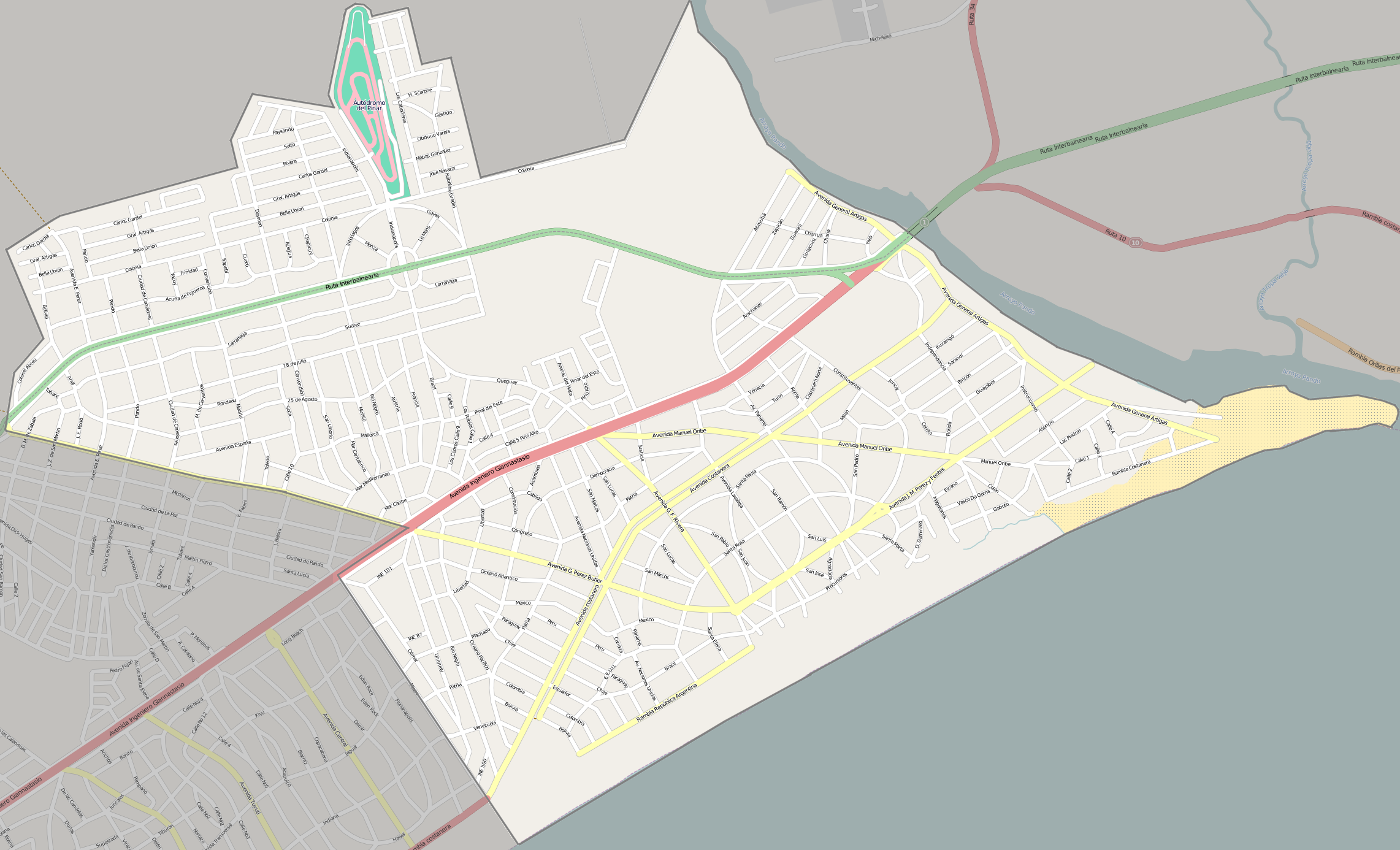 Street map of El Pinar, resort of the Ciudad de la Costa, Canelones Department, Uruguay, exported from OpenStreetMap. I added shading to delimit the resort. This map may be incomplete, and may contain errors. Don't rely solely on it for navigation.